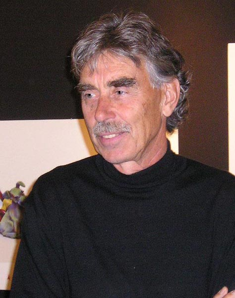 Photo taken at Gothenburg Book Fair 2005 by Lennart Guldbrandsson